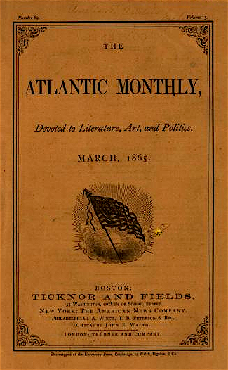 Published by Ticknor and Fields, Boston